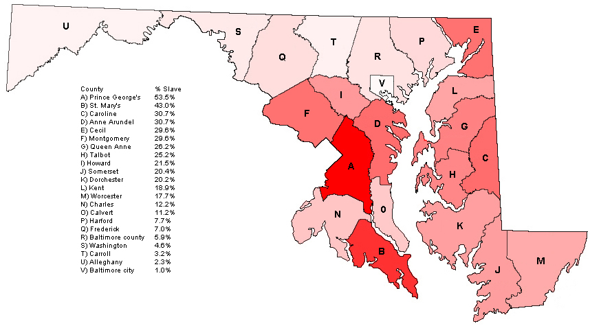 Each Maryland county's 1860 slave proportion